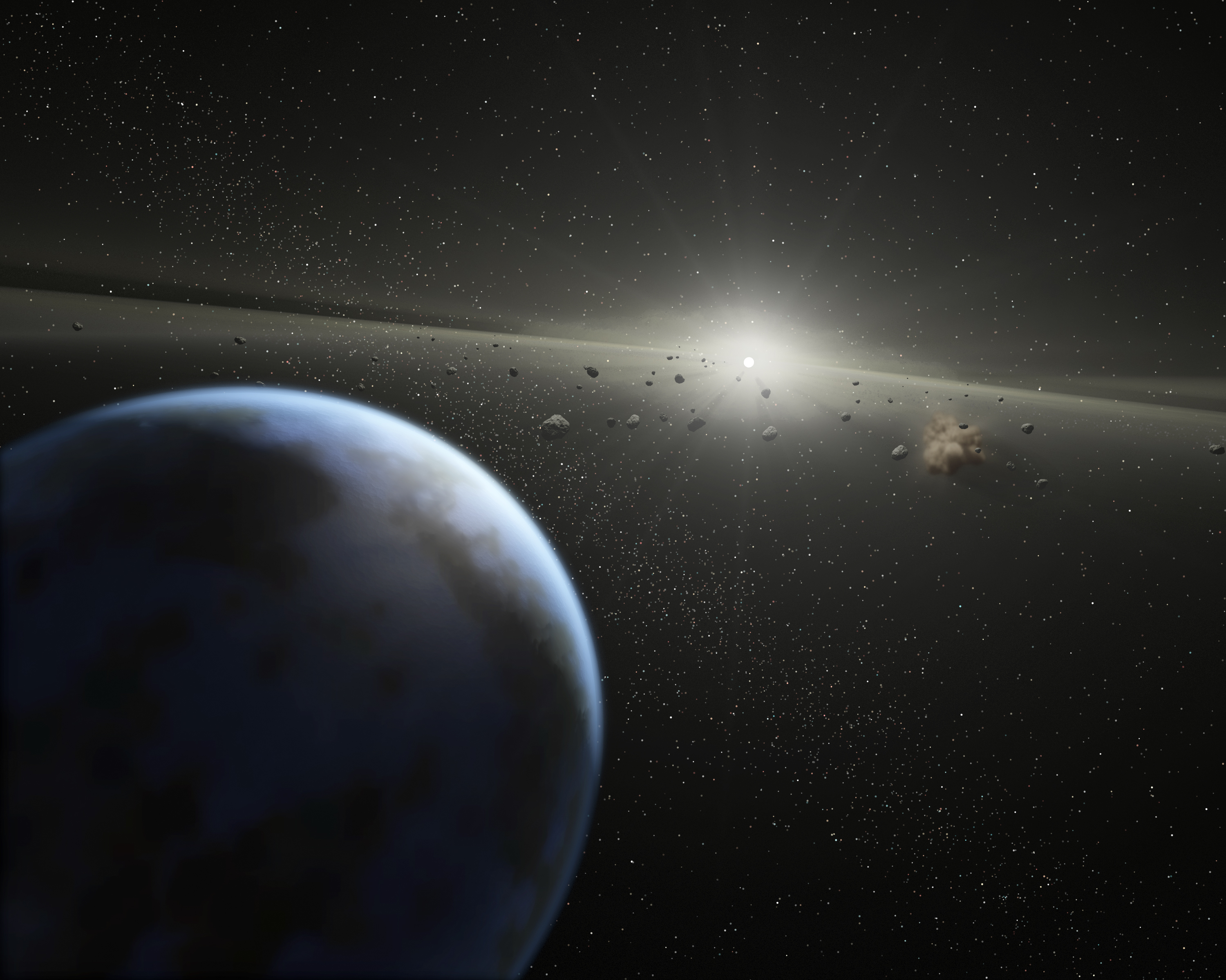 Artwork inspired by the detection of a debris belt around HD 69830 which led to the hypothesis of an asteroid belt being there. This is an obselete hypothetical image suggesting a planet beyond a debris disc. This image was created in 2005 and does not represent HD 69830 d which was not discovered until 2006. The picture is not suited as a scientific illustration, as it is erroneous in following ways (besides others): To show a planet blurred before a sharp background on a photographic picture, the size of the lens had to be comparable to the planet. The symmetry axis of a crescent has to point to the object causing the illumination, i.e. the star. If the shown rocks were farther away than the planet they would have diameters of at least some hundred kilometers. There is no model which allows that many such bodies to be seen simultaneously in a view angle which the artwork pretends.